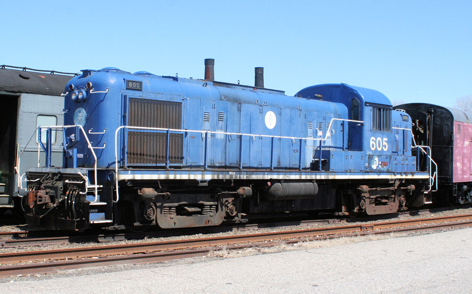 Connecticut DOT ALCO RS-3m Diesel # 605 at Danbury Railway Museum, Danbury, Connecticut, USA.